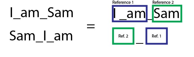 A quick example showing how Lempel–Ziv–Storer–Szymanski compression would work when compressing a short statement. Uses colors to help guide the viewer.